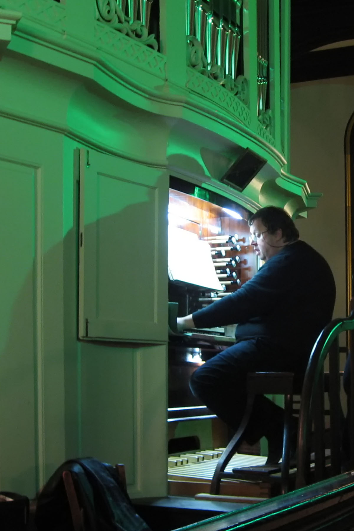 Matthias Eisenberg (* 1956) on the 1766 of Johann Christian Immanuel Schweinefleisch built organ of the Auferstehungskirche to Leipzig-Möckern